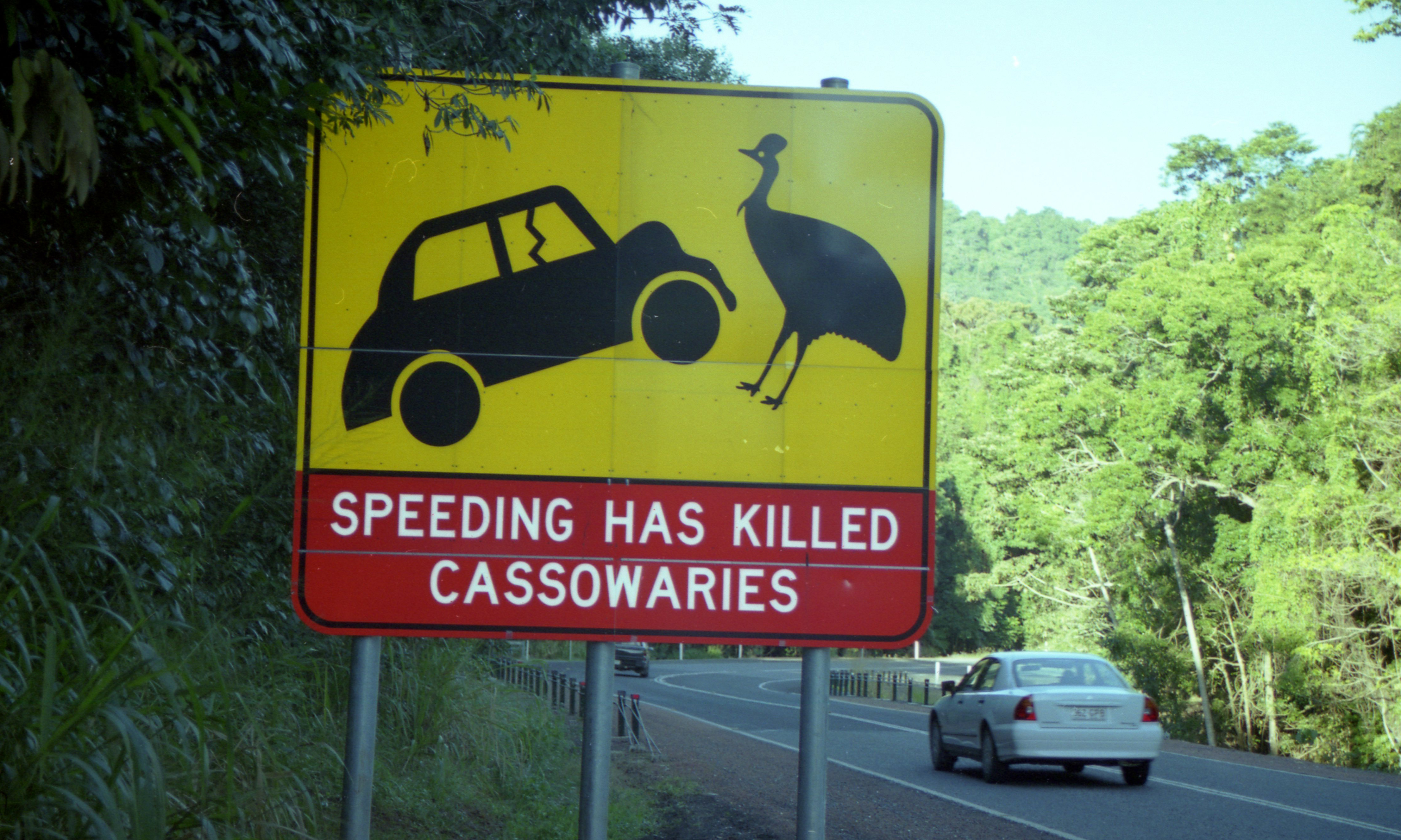 A road sign in Cairns, Queensland, Australia. It says; "Speeding has Killed Cassowaries" and it shows an illustration of a crashed car with a cassowary.